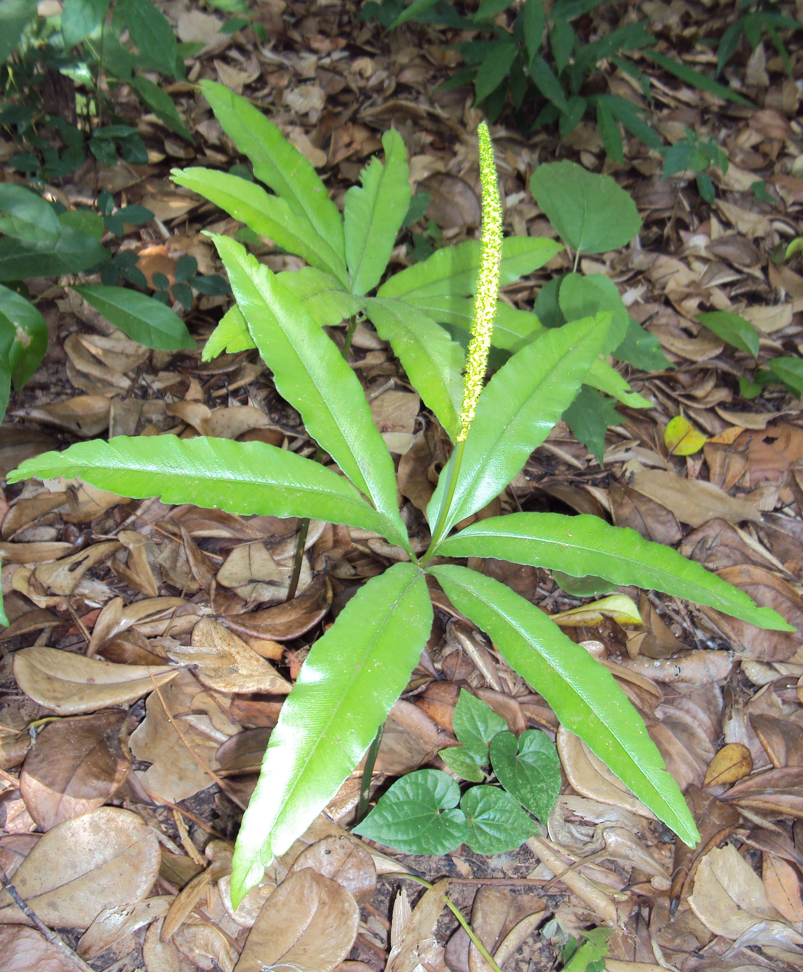 Helminthostachys zeylanica